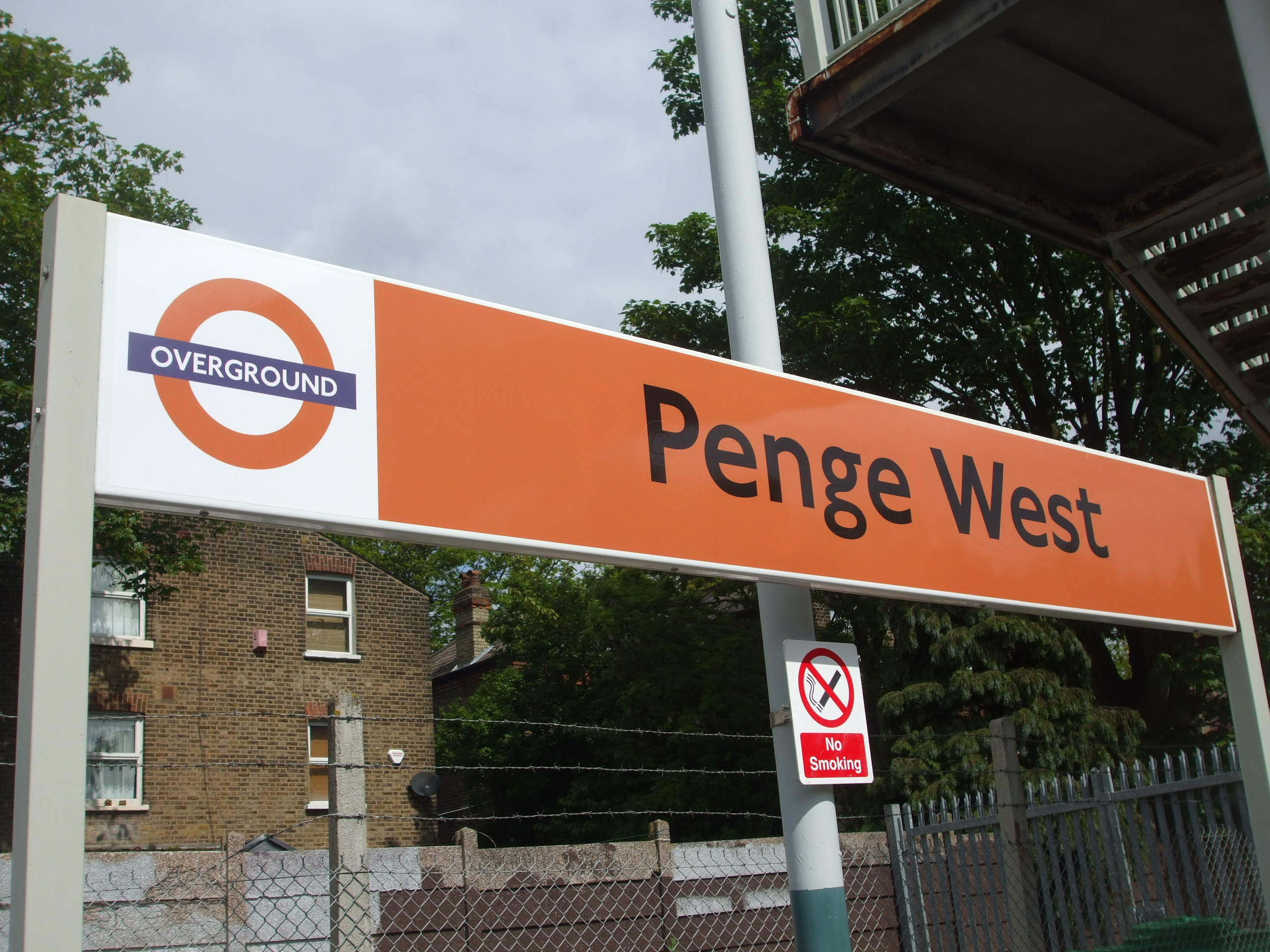 Penge West station platform signage in new Overground colours. Photo May 2010, a few days prior to East London Line services commencing at this station. Replaced by circular roundels by 2012.